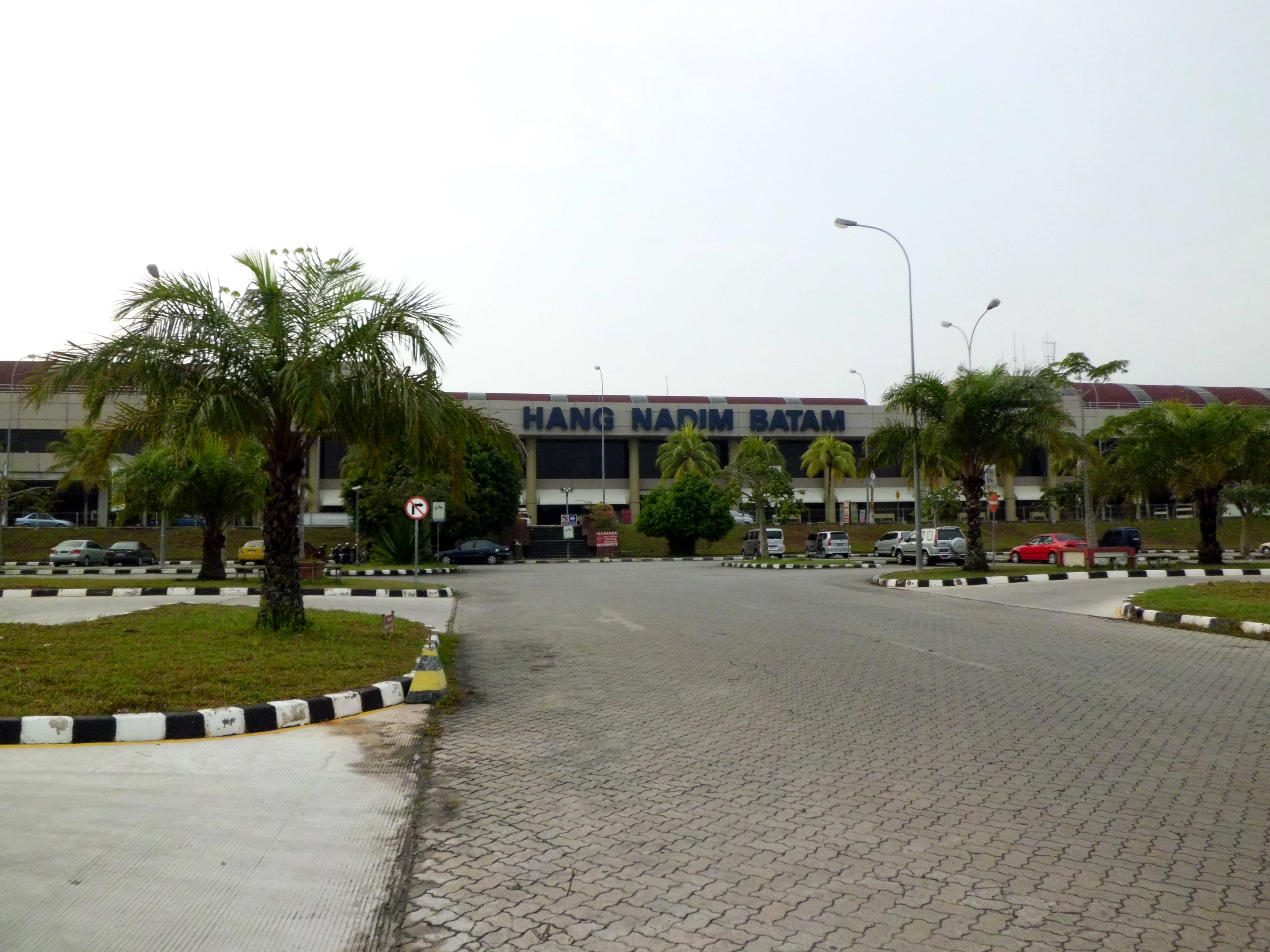 Hang Nadim International Airport Parking Area in Batam, Riau Islands, IndonesiaBahasa Indonesia: Area Parkir Bandar Udara Internasional Hang Nadim di Batam, Kepulauan Riau, Indonesia